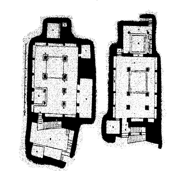 Plan of Uparkot Caves, Junagadh, Gujarat, India. Left is lower floor plan and right is upper floor plan.